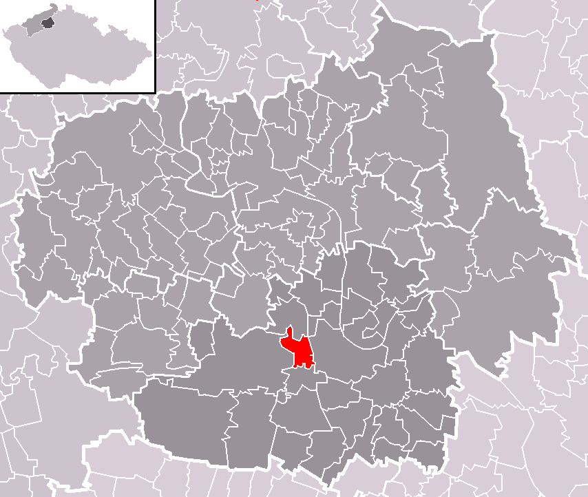 Location of Dušníky municipality within Litoměřice District and administrative area of Roudnice nad Labem as a Municipality with Extended Competence.